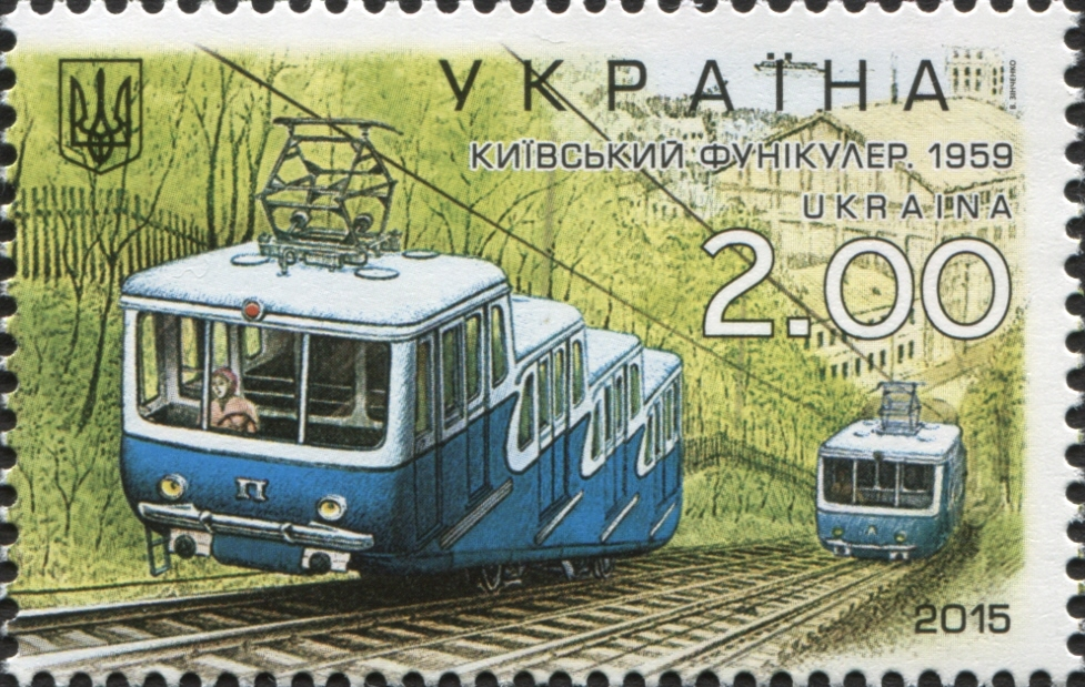 Stamps of Ukraine, 2015